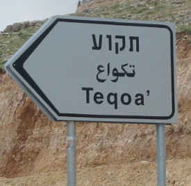 Trilingual road sign at entrance to Tekoa.